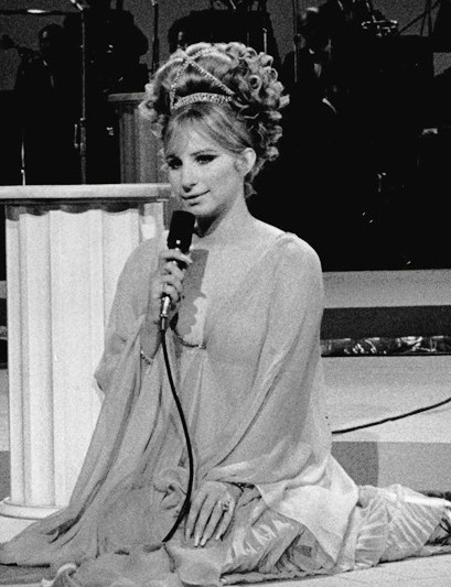 Photo of Barbra Streisand performing on The Ed Sullivan Show in 1969.